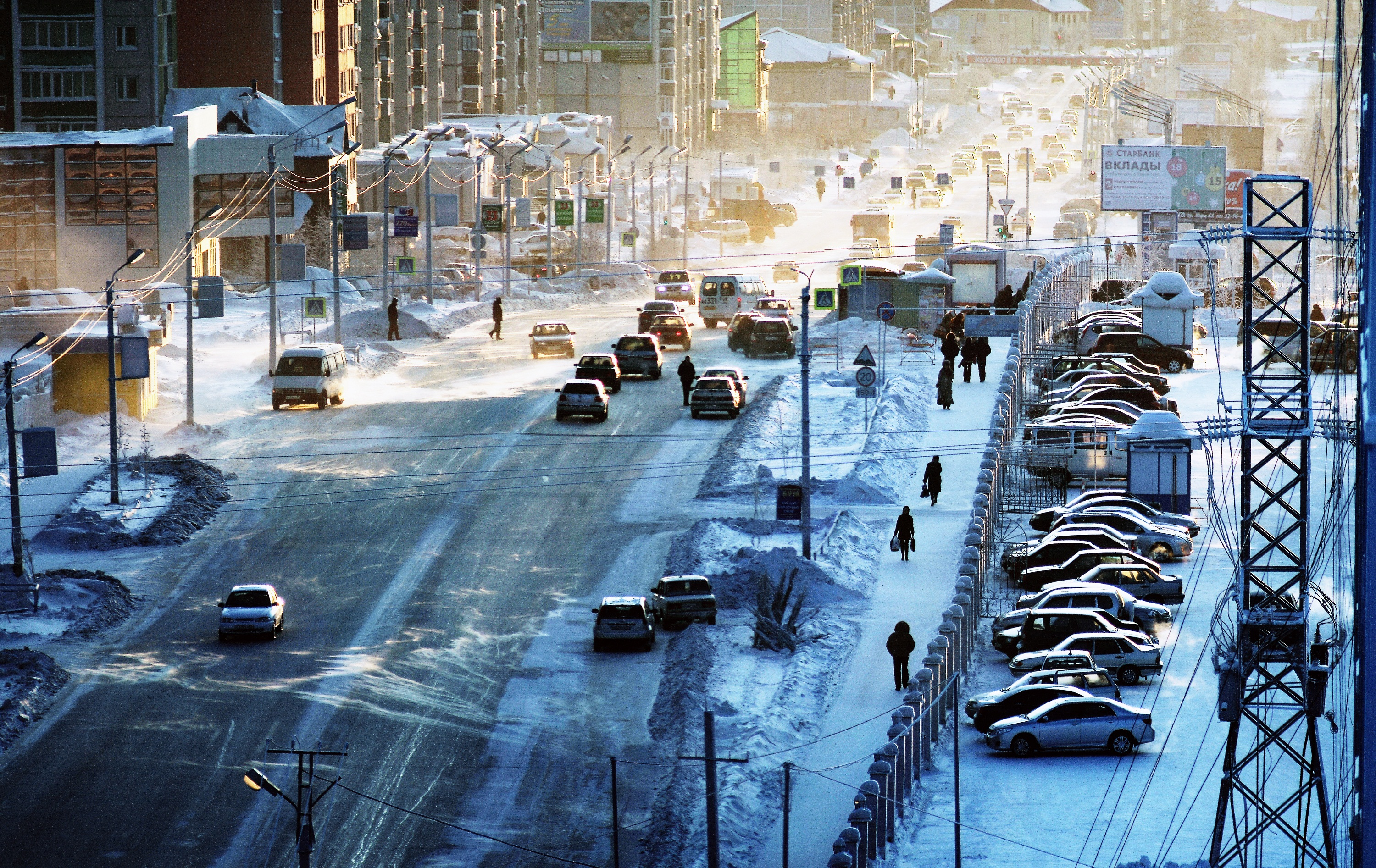 Noyabrsk in january 2010